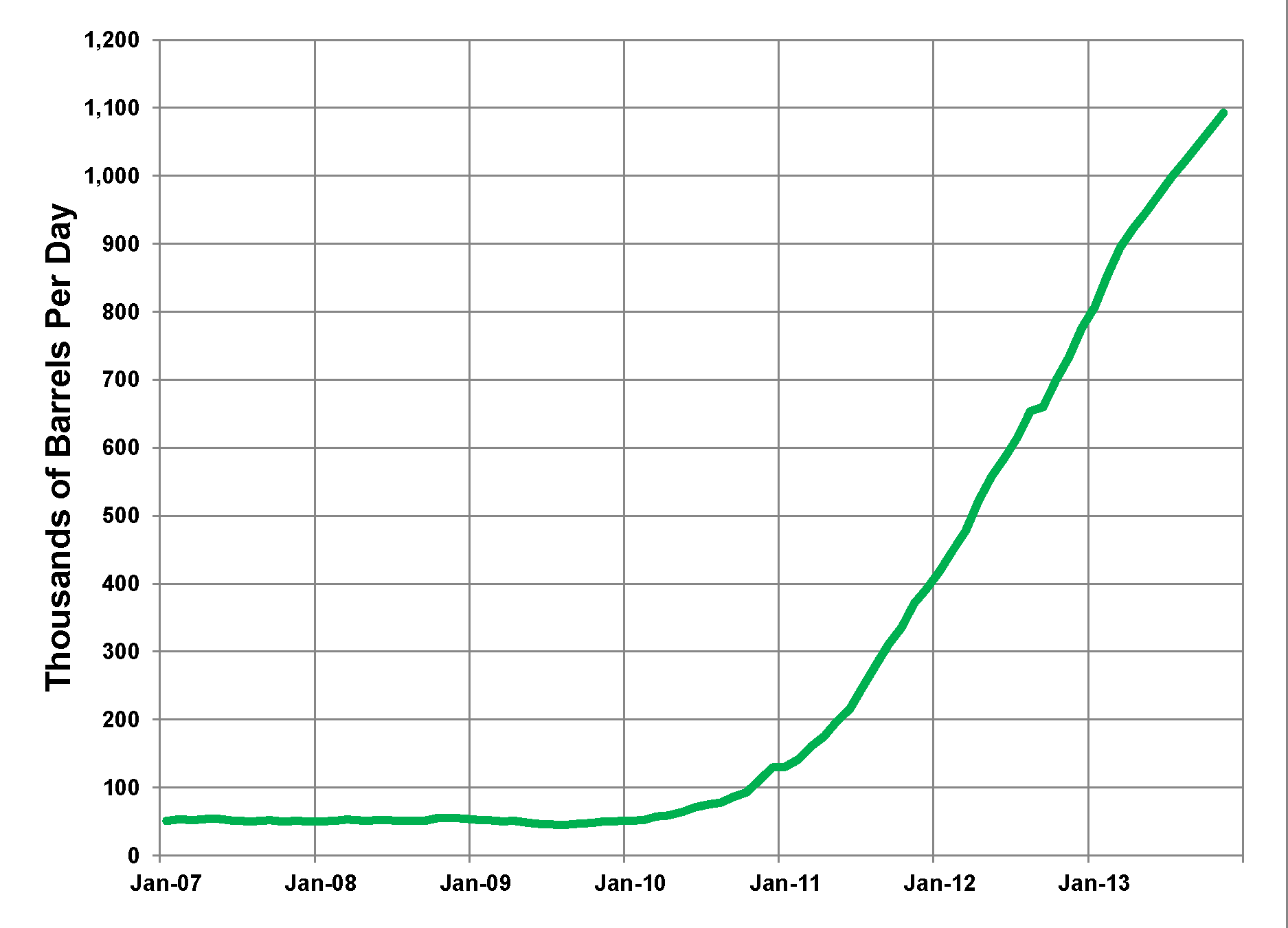 Oil production from the Eagle Ford Formation, 1980-2013